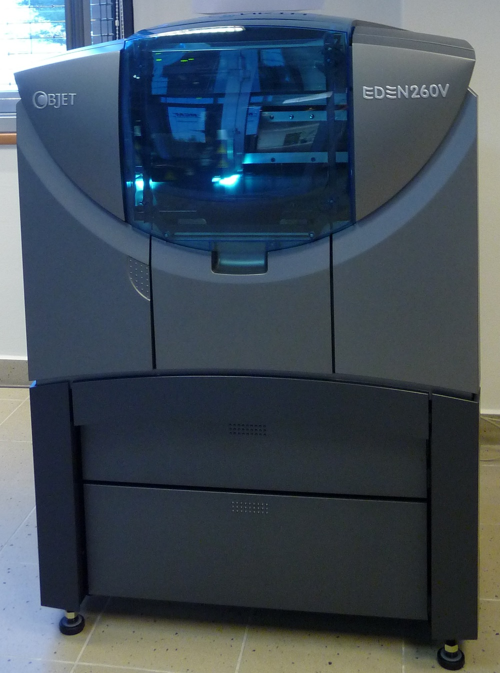 3D printer Objet Eden 260V. Polyjet high-precision technology, the 3D printer capable of printing 260x260x200mm's volume has.This 3D printer is the technical high rapid prototyping.